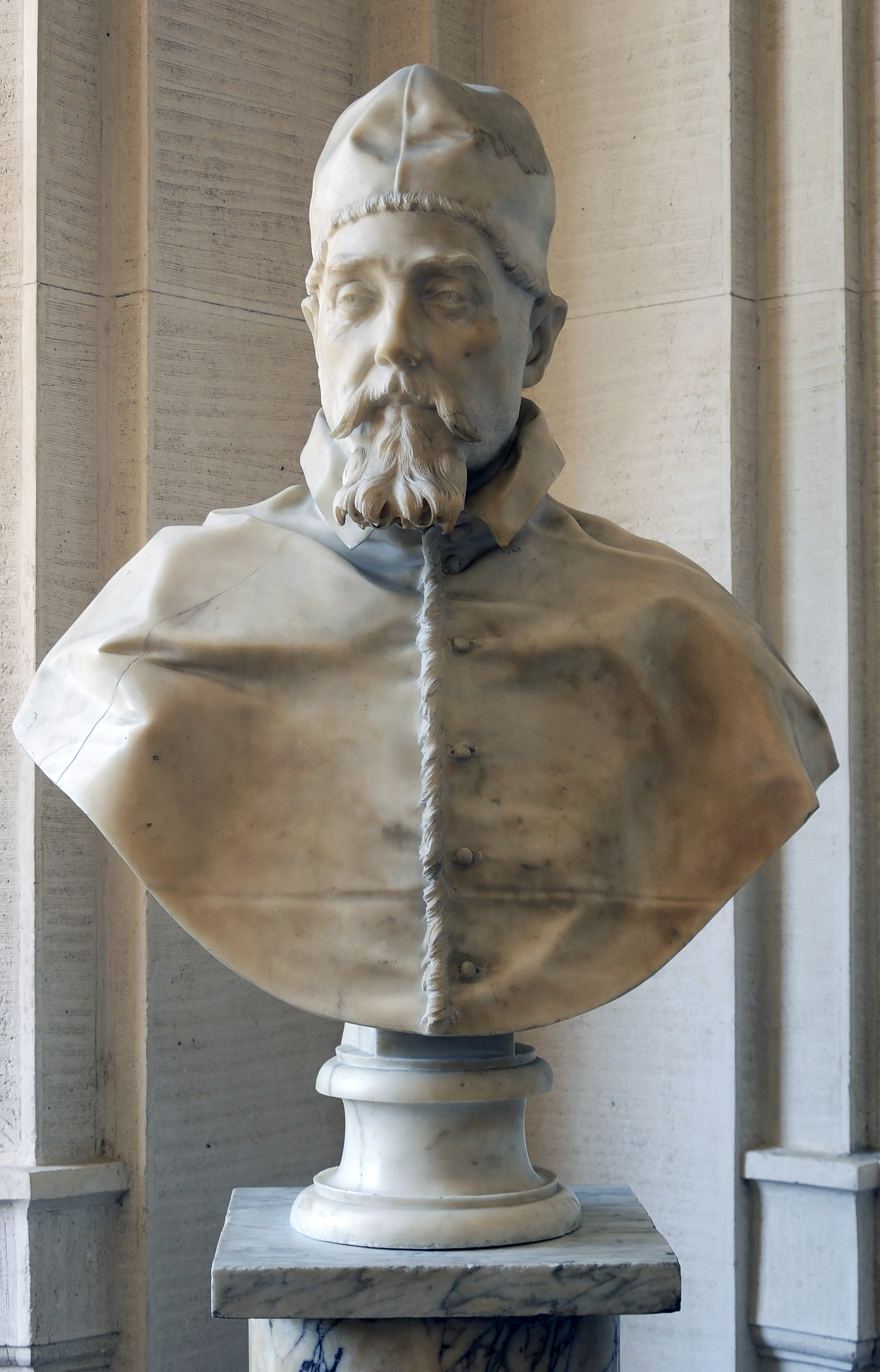 Buste of Pope Urban VIII, by Bernini